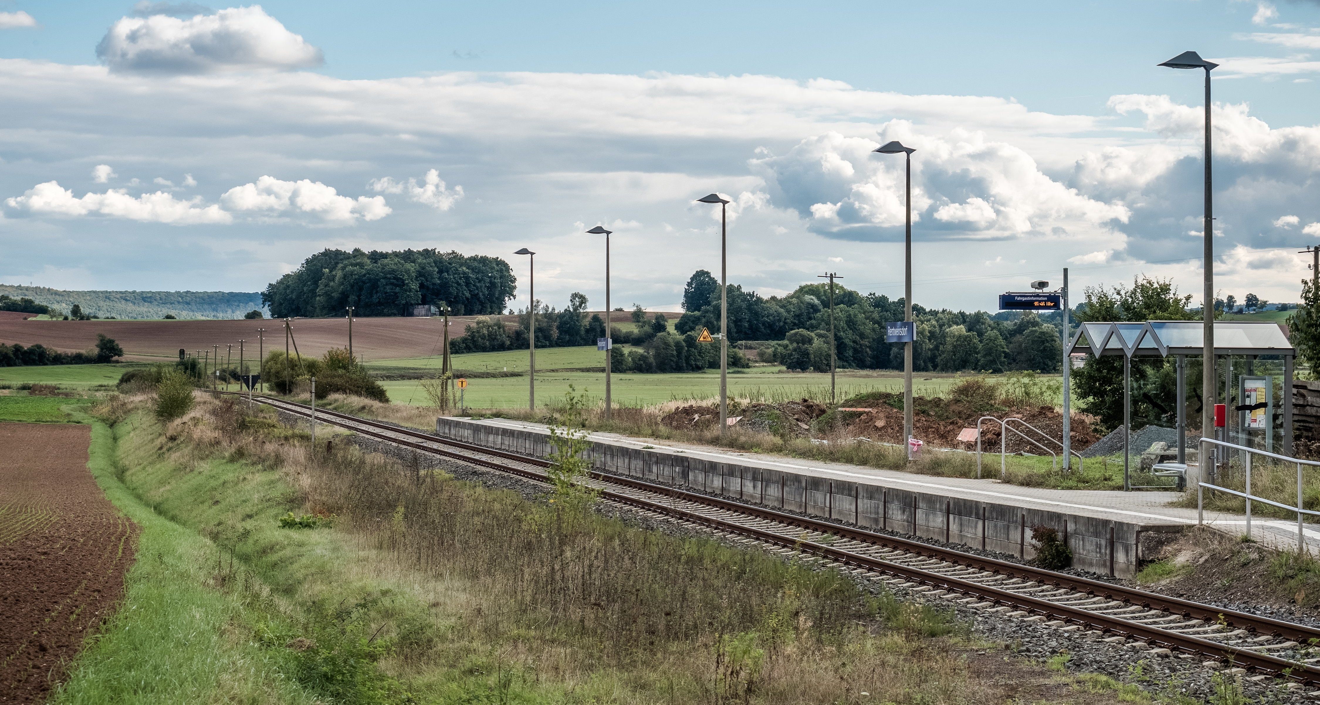 Train stop Rentweinsdorf at the railway line Breitengüßbach-Maroldsweisach